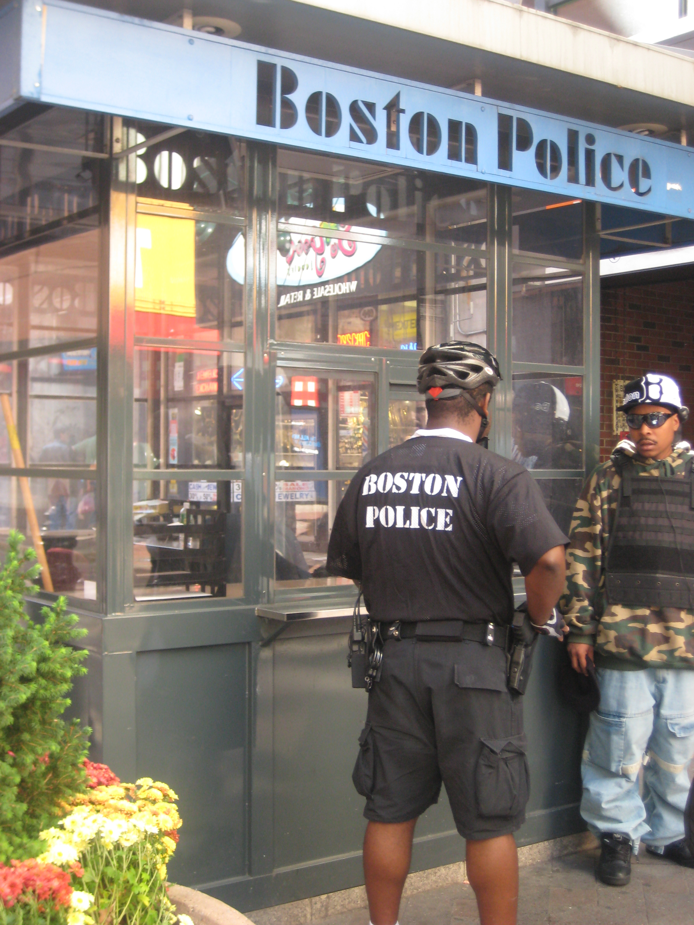 Boston Police Department kiosk in Downtown Crossing. October 2007 photo by John Stephen Dwyer